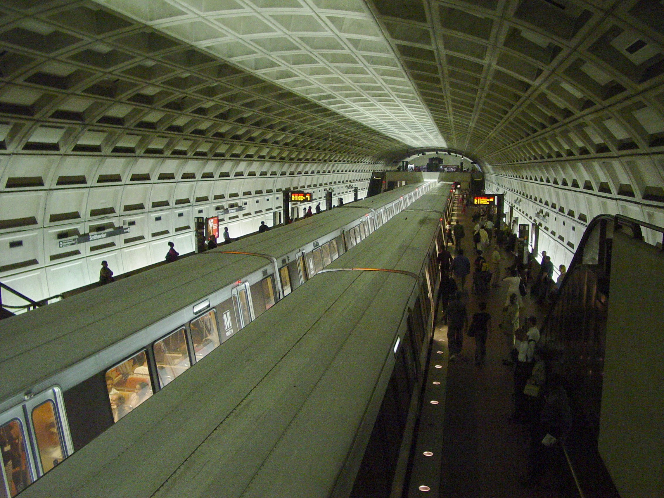 Smithsonian station as seen from the station mezzanine.